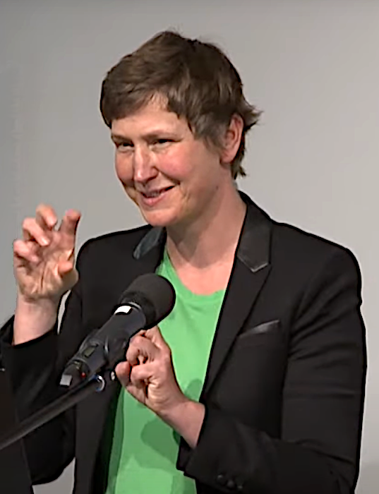 Professor Gudrun Quenzel during a public presentation